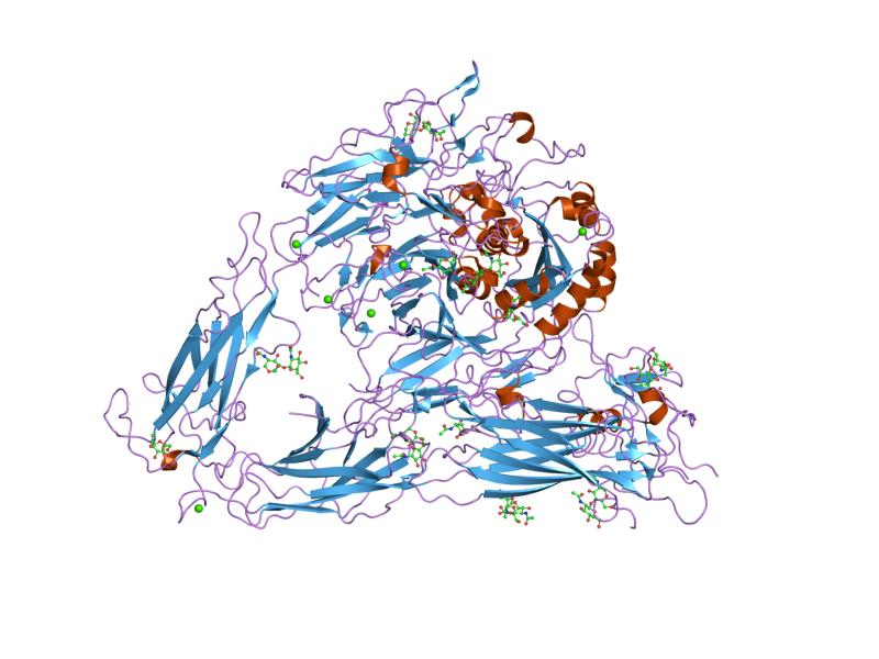 Cartoon representation of the molecular structure of protein registered with 1jv2 code.